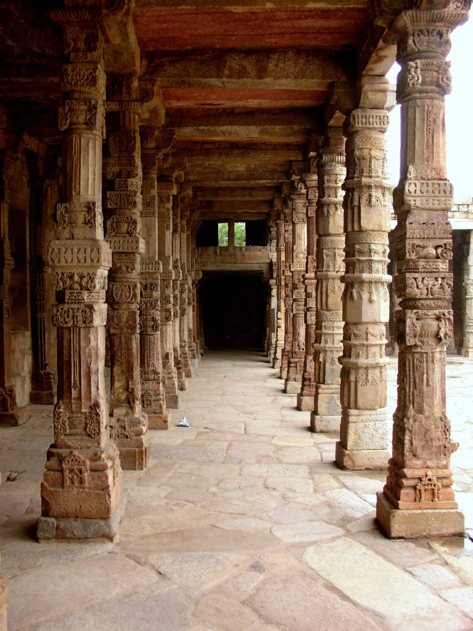 Columns of the cloister at Quwwat ul-Islam Mosque, Qutb complex.